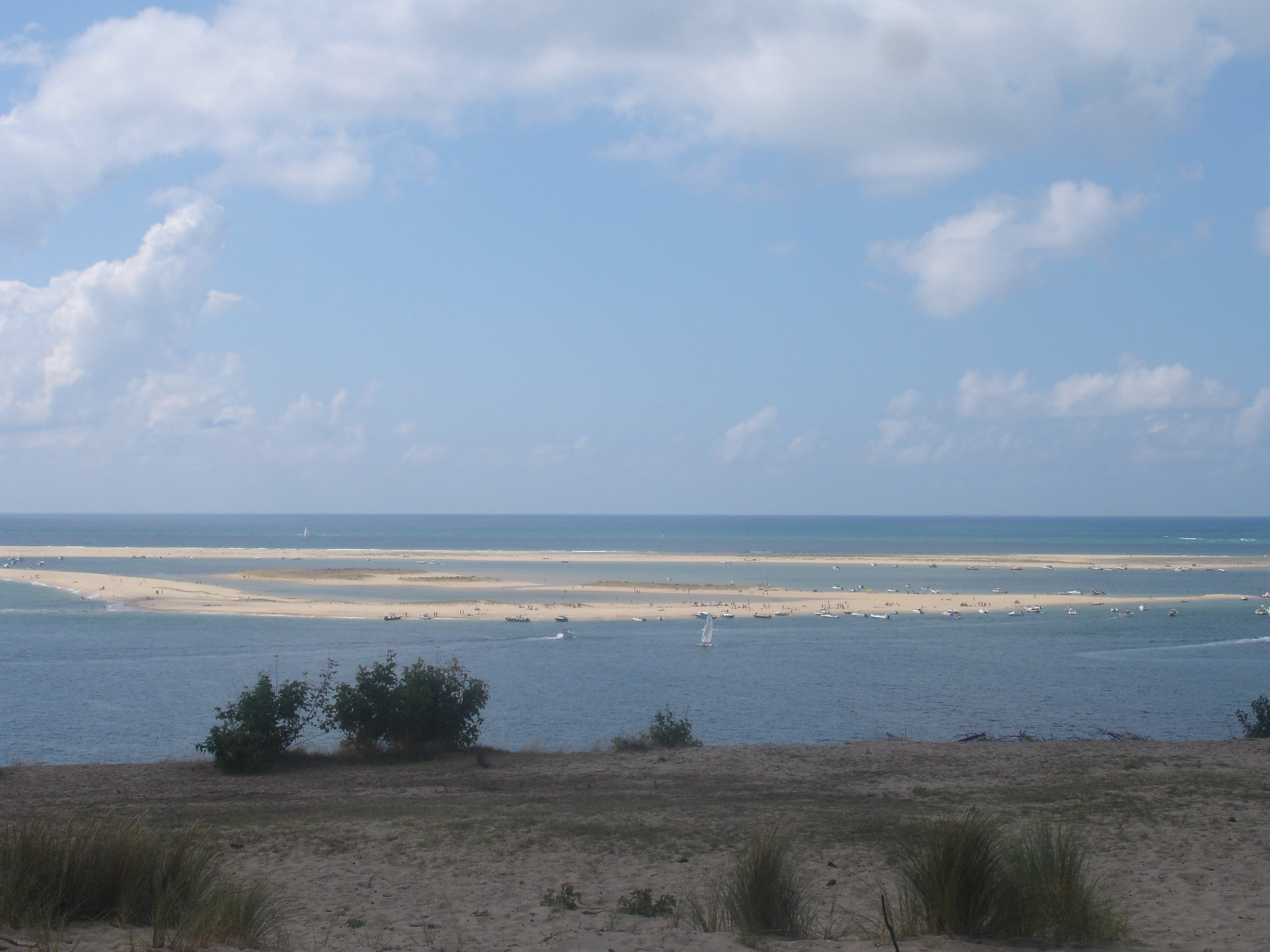 France, Gironde (33), Banc d'Arguin